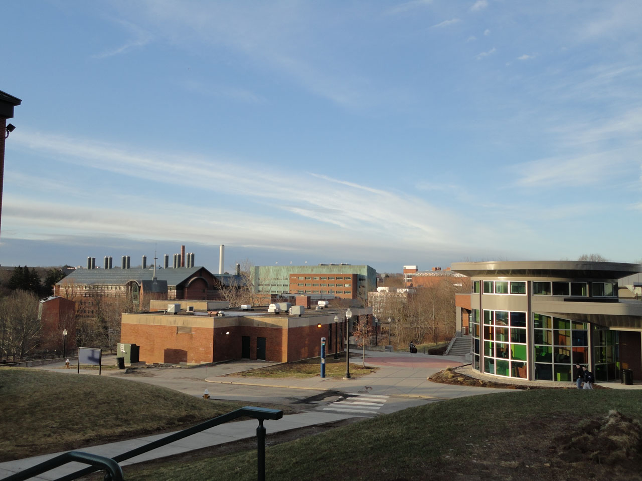 UConn Main Campus